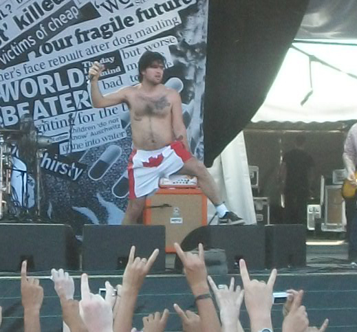 Recent photo of George Pettit from Alexisonfire, taken at Soundwave Sydney at Eastern Creek Raceway.